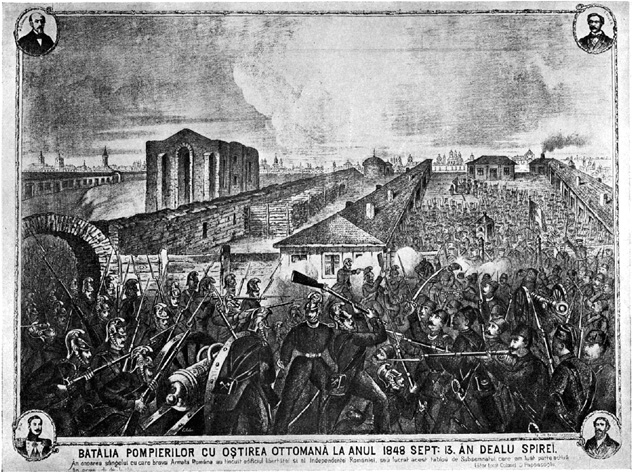 Bucharest firemen battle the Ottoman Turkish army in Dealul Spirii, 13 September 1848